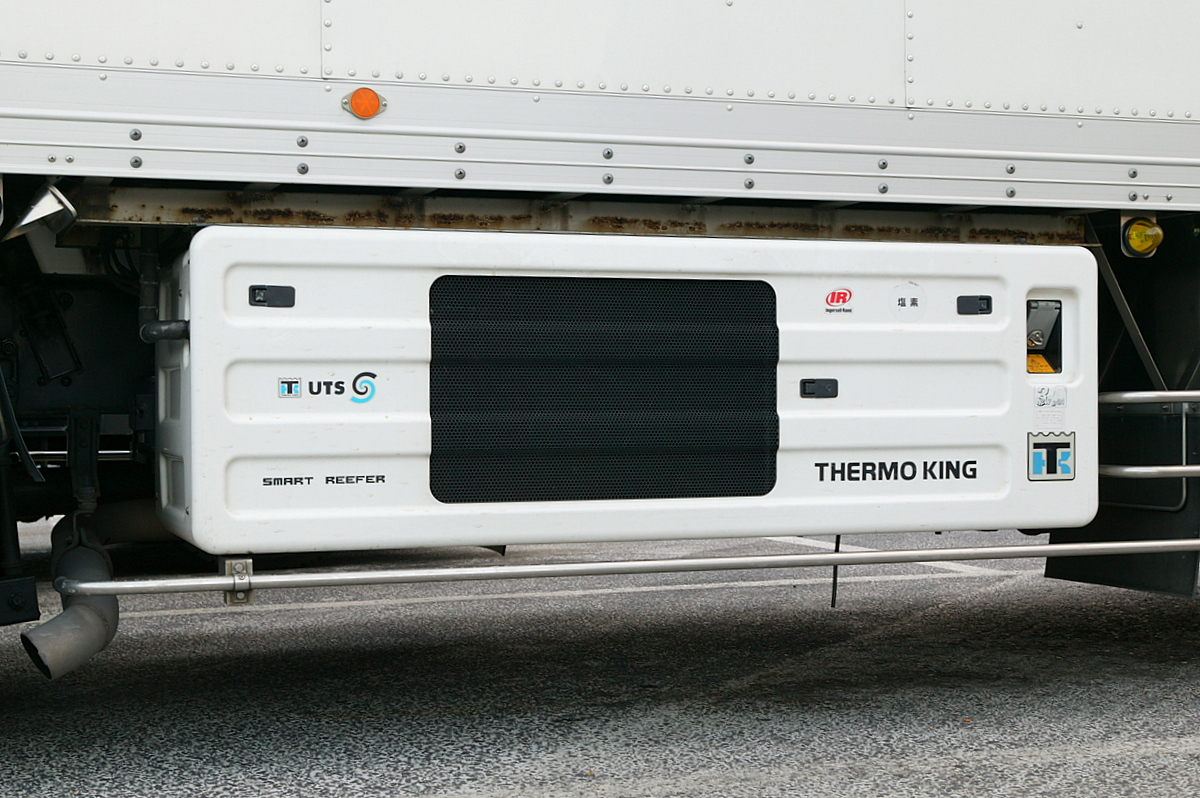 Thermo King Smart Reefer mobil refrigerator unit